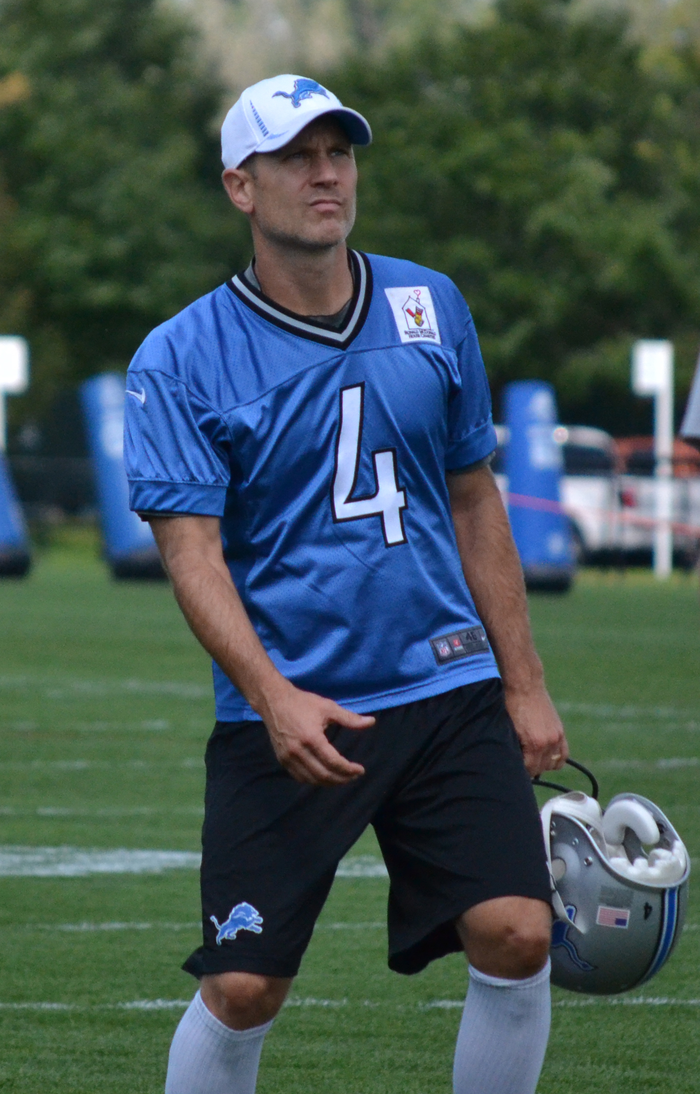 Detroit Lions placekicker Jason Hanson at the 2012 Lions training camp